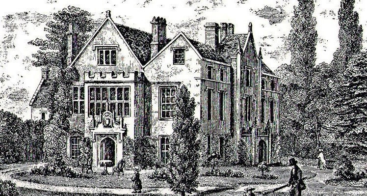 Calthorpe House near Banbury, Oxfordshire. North-east view by E G Brunton as it was when Thomas Draper purchased it. Printed in "Notes on Calthorpe Manor House, Banbury, and its inhabitants". Hardcover – 1915 by Eleanor Draper